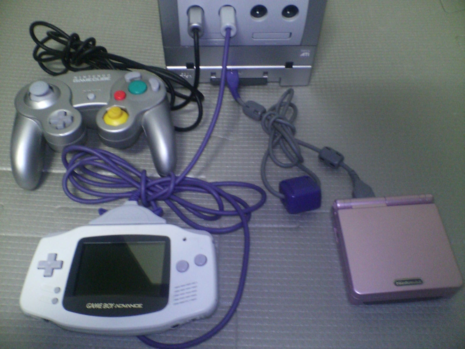 Usage sample of Game Boy Player In this picture, Controller and Game Boy Advance are equivalent, and Game Boy Advance SP is recognized as another player. That means, the Game Boy Advance or the Game Cube Controller could be used as Controller for the Game Boy Player. In this case, the Game Boy Advance Screen is without function.